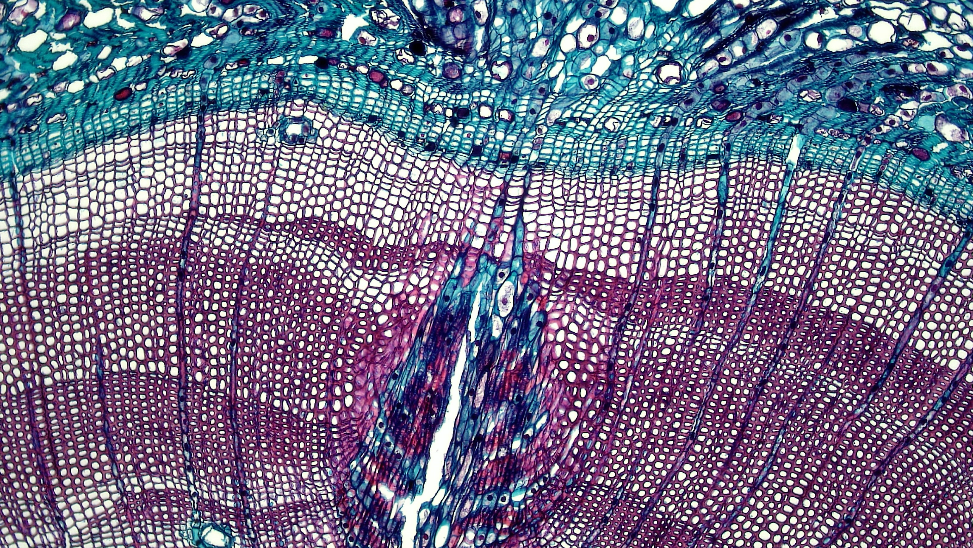 cross section: Pinus stem magnification: 100x During the first year of growth the cutinized epidermis is replaced by protective growth of cork rich periderm. The outer periderm consists of layers of cork cells, the phellem, which produces waterproofing suberin. Cork cells are dead at maturity. Deep to the phellem is a living layer of cork cambium or phellogen and beneath that, layers of cork parenchyma or phelloderm. Many cells in the periderm contain dark staining tannins. The cortex is divided into a thin outer hypodermis of lignified sclerenchyma cells and thicker inner cortex of thin walled parenchyma cells containing chloroplasts. Large resin ducts are surrounded by secretory parenchyma that produces resins and turpentines. Some cells enlarge into dark staining tyloses. Both endoderm and pericycle are inconspicuous. The vascular cylinder or stele in young stems consists of a ring of vascular bundles interspaced with medullary rays of parenchyma cells. Seasonal activity of the cambium replaces the isolated vascular bundles with well-defined annual rings of secondary phloem and xylem. Xylem is endarch with protoxylem found towards center of the stem and younger metaxylem towards the periphery of the stem. Protoxylem consists of annular and spiral tracheids with only tracheids found in metaxylem. True xylem vessels are lacking. Because of the greater production of xylem, the vascular cylinder is dominated by radially arranged rays of secondary xylem interspaced with medullary rays of parenchyma cells. Conspicuous resin ducts are present throughout the xylem. Phloem is endarch but annual growth the of stem makes it difficult to distinguish between older protophloem to the periphery and younger metapholem towards center of the stem. Phloem lacks companion cells, consisting entirely of sieve tubes and phloem parenchyma. Medullary rays in the secondary phloem include protein rich albuminous cells.